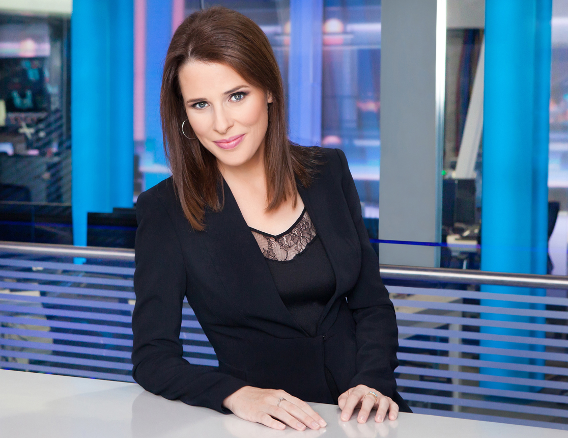 Channel 10 News (Israel) Journalist